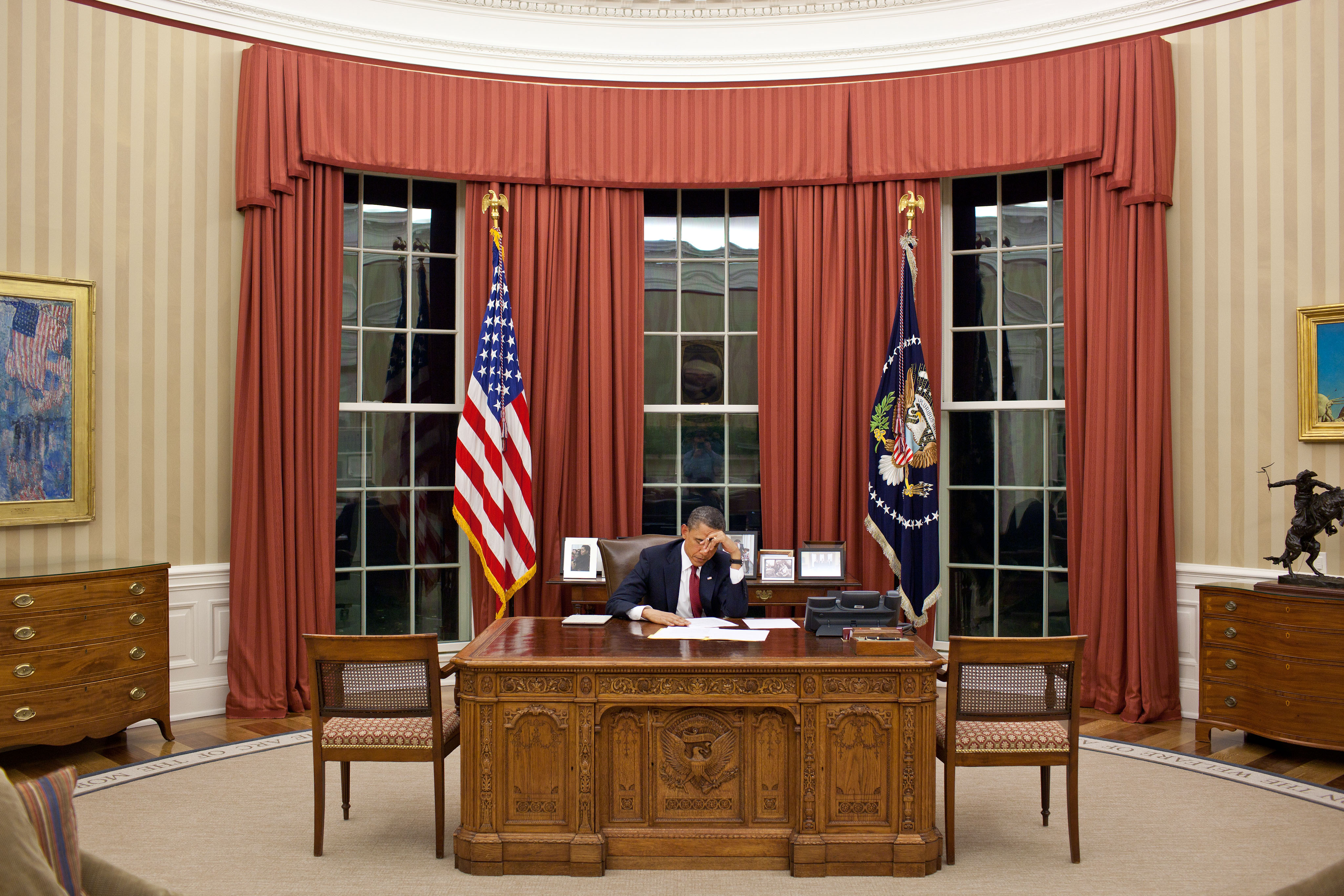 President Barack Obama edits his remarks in the Oval Office prior to making a televised statement detailing the mission against Osama bin Laden.